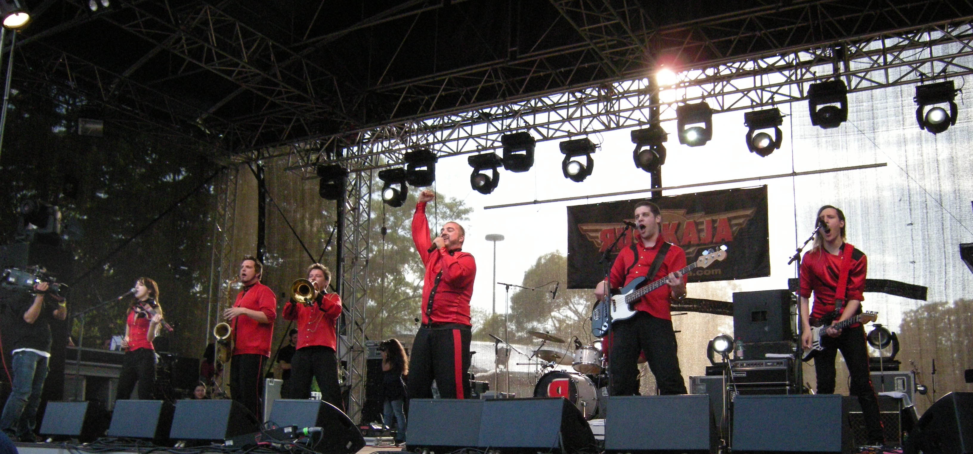 Russkaja performing on "Kaiserwiese" stage (Prater, Vienna). This event was due to opening a new section of Vienna's Subway line U2, which, by reason of EURO '08, from now on connects Ernst-Happel-Stadion with the center of the city. From left to right: Antonia-Alexa Georgiew, Manfred Franzmeier, Hans-Georg Gutternig, Georgij Alexandrowitsch Makazaria, Dimitrij Miller, Zebo Adam (on drums: Titus Vadon)